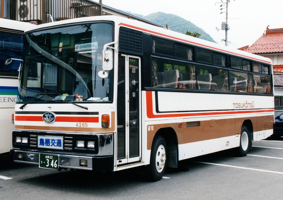 Fuso Aero Midi P-MK515J with Nishi-Nippon Shatai Kogyo 58MC S body for Tosu Kotsu (now Nishitetsu Bus Saga)